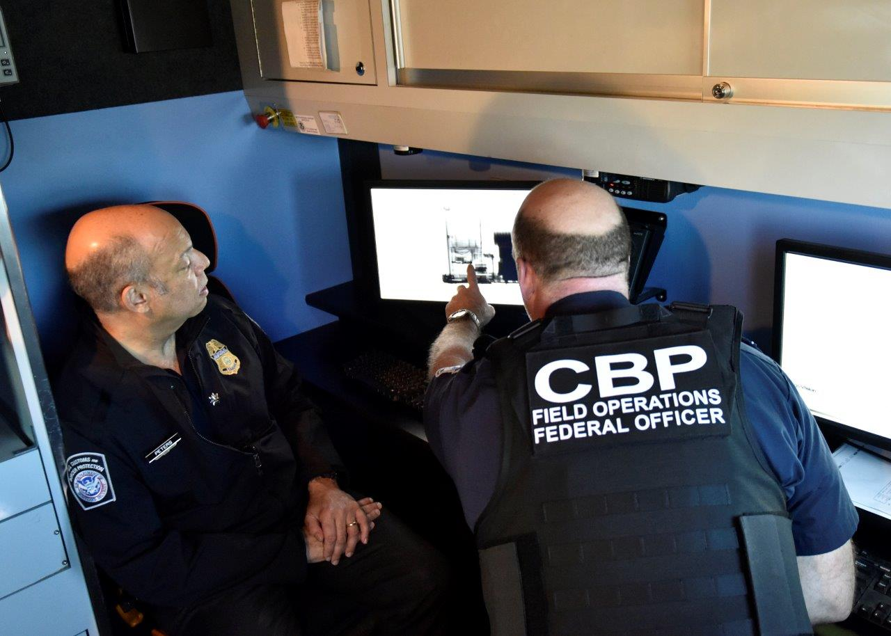 March 17, 2016: Department of Homeland Security Secretary Jeh Johnson, met with CBP/OFO and USCG employees at the Dundalk Marine Terminal, near Baltimore. While there, the Secretary engaged with employees as he worked first hand with them on agricultural inspections, container x-ray screening and finally presenting recognition awards to two team members. DHS Photos by Barry Bahler